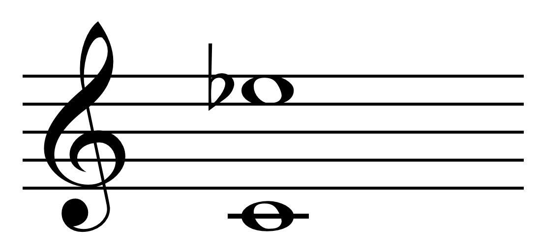 Minor tenth on C = E♭'. Just: 12:5 = 315.64 cents. Equal-tempered: 215/12:1 = 1500 cents.